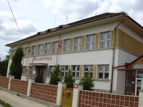 Elemetary school in Čížkovice.